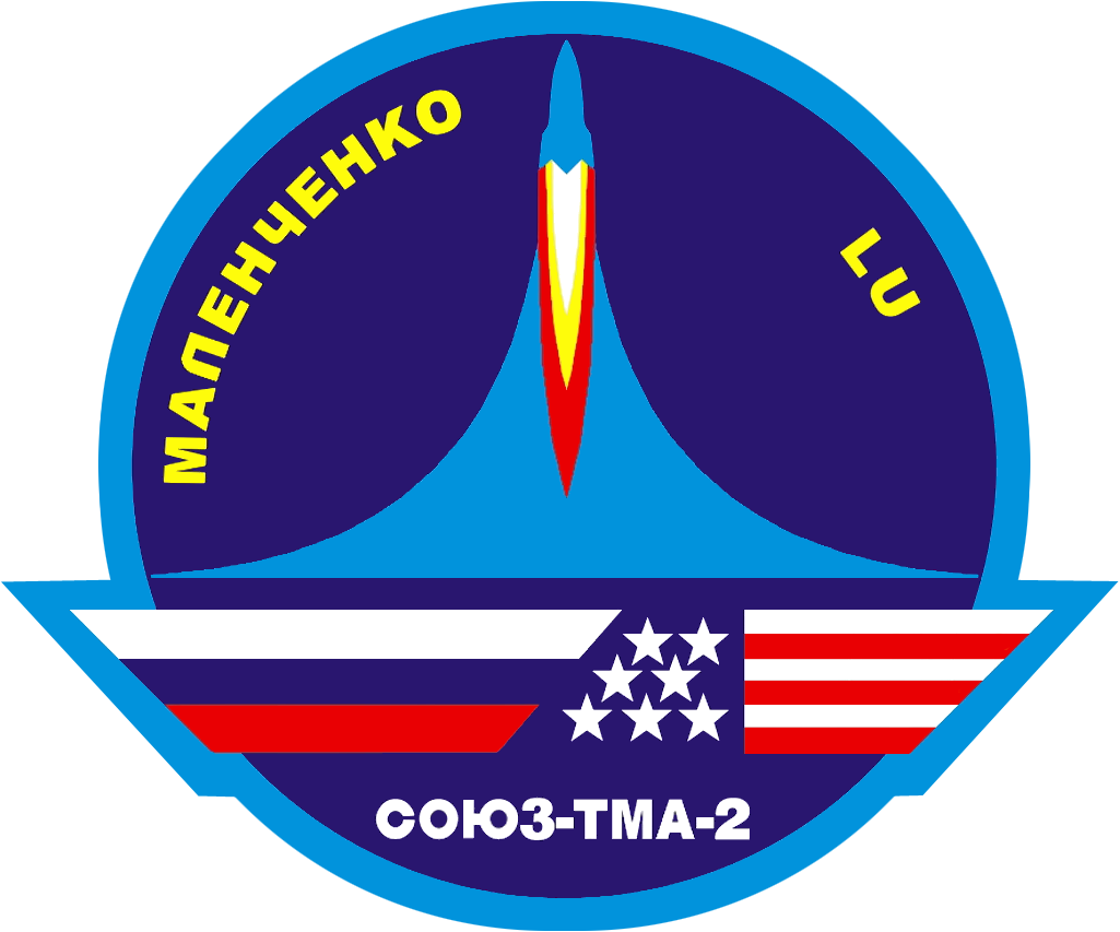 Official patch for the Soyuz TMA-2 mission, carrying Expedition 7 to the International Space Station.